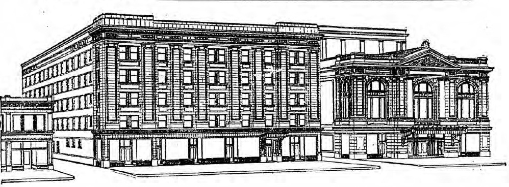 Announcement in the Chicago Tribune, June 1914, for the Strand Hotel, now listed on the National Register of Historic Places. The Strand Hotel is on the left, and a theater is at right.